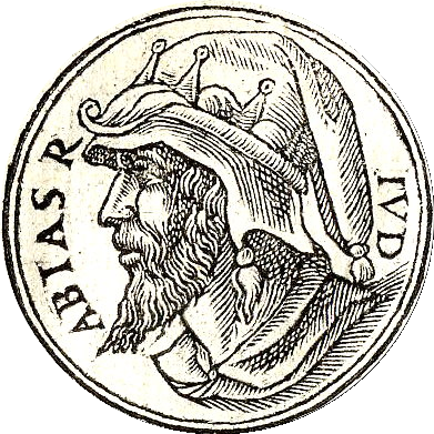 Abijam